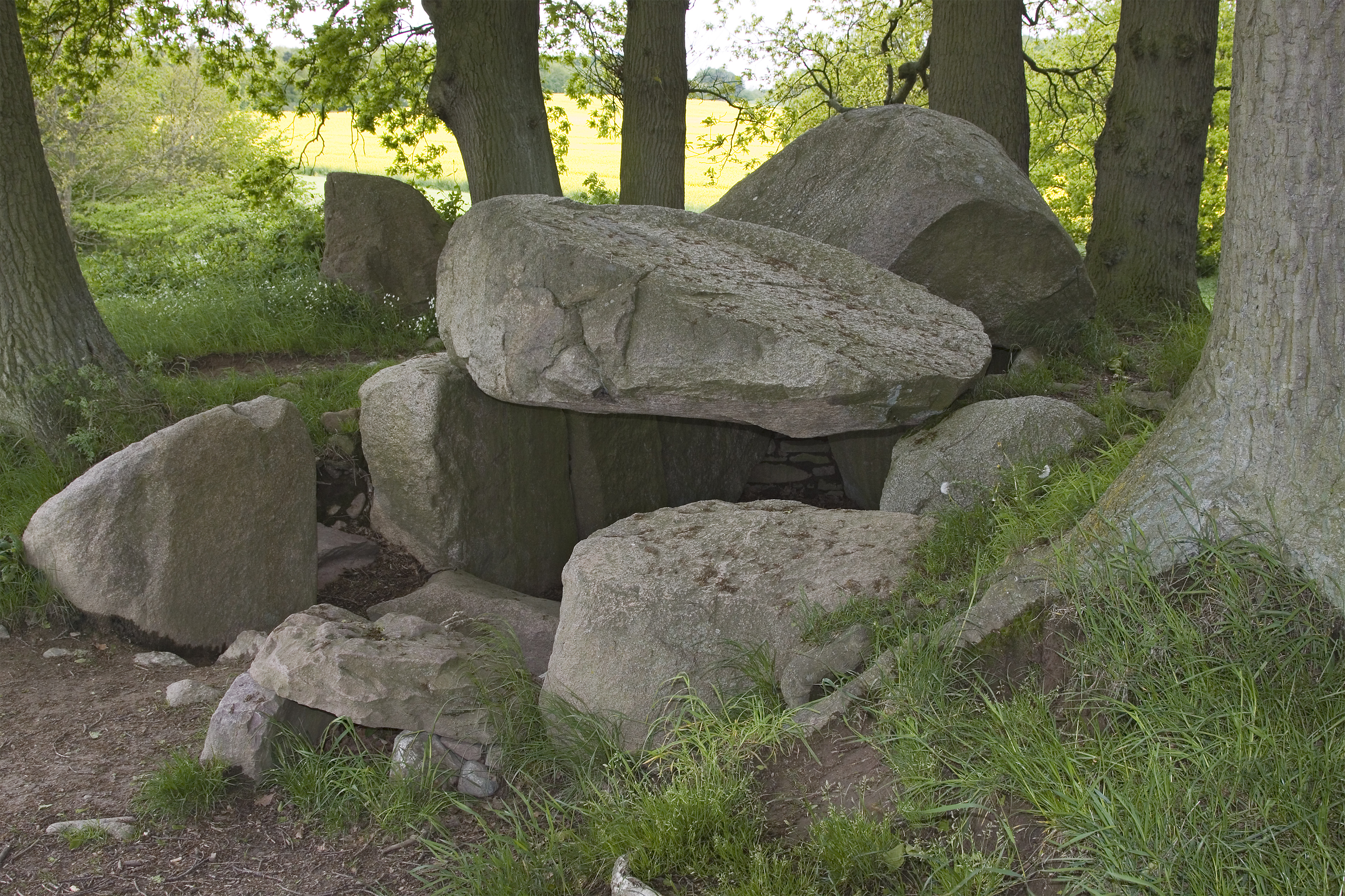 Dolmen Lancken 1, island of Rügen